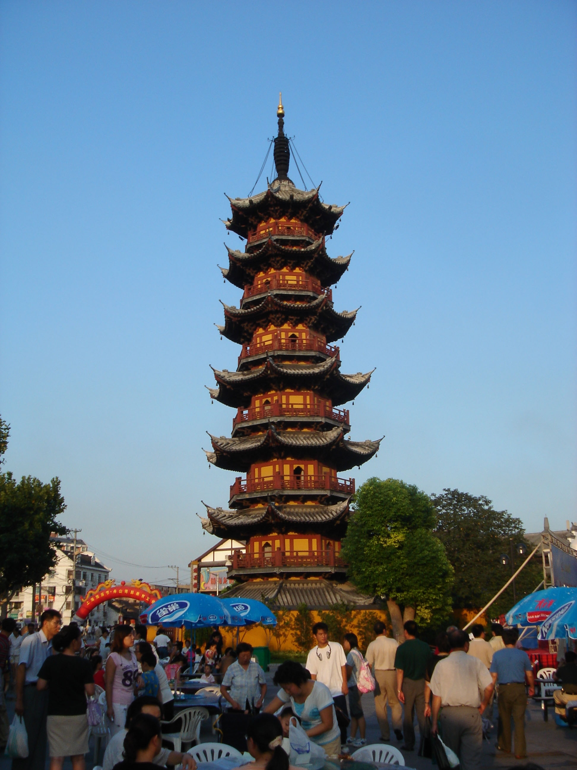 The Longhua Pagoda of Longhua Temple in Shanghai, China, its present form under the wooden facade built in 977 during the Song Dynasty (960-1279 CE) period, with later renovations that account for the updated, decorative wooden exterior seen today.